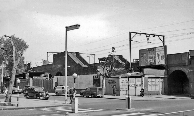 Bow Road (ex-GER) Station (remains). Near to Bow, Tower Hamlets, Great Britain. View NE on Bow Road at Addington Road, towards Bow Junction (Stratford); ex-GE Fenchurch Street - Stratford line. Remnants of the station were still clearly present in 1961, although after temporary closure 21/4/41 - 9/12/46 and 6/1 - 6/10/47, had been closed permanently since 7/11/49, when the line was electrified - but only as a diversionary route.